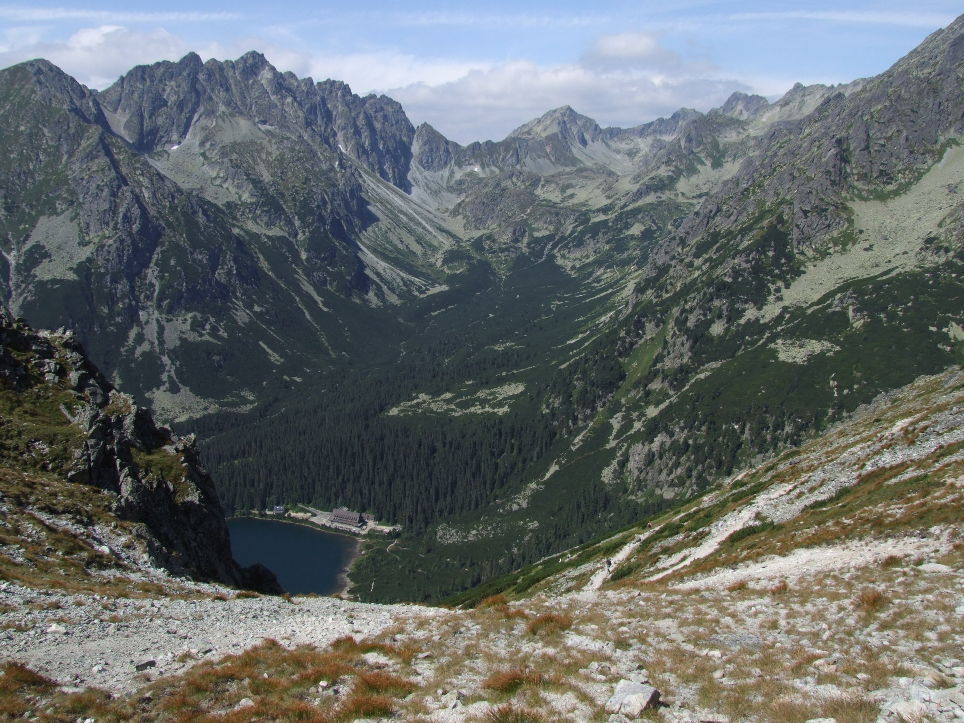 Dolina Mięguszowiecka i Popradzki Staw. Widok z Osterwy